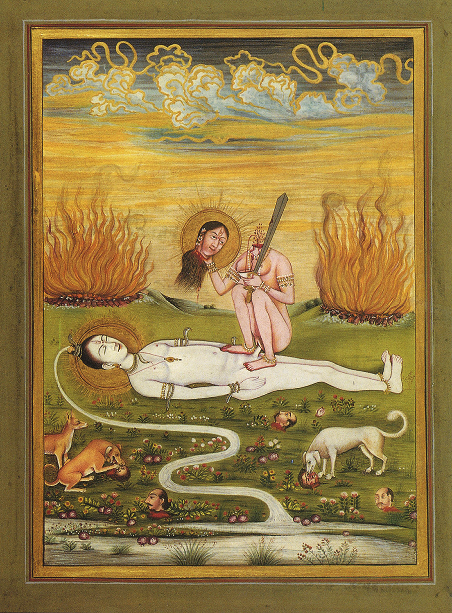 Chinnamasta Shiva, Rajasthan